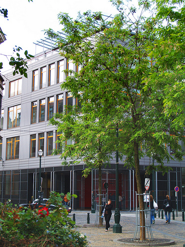 Builiding of the EhB Campus Dansaert